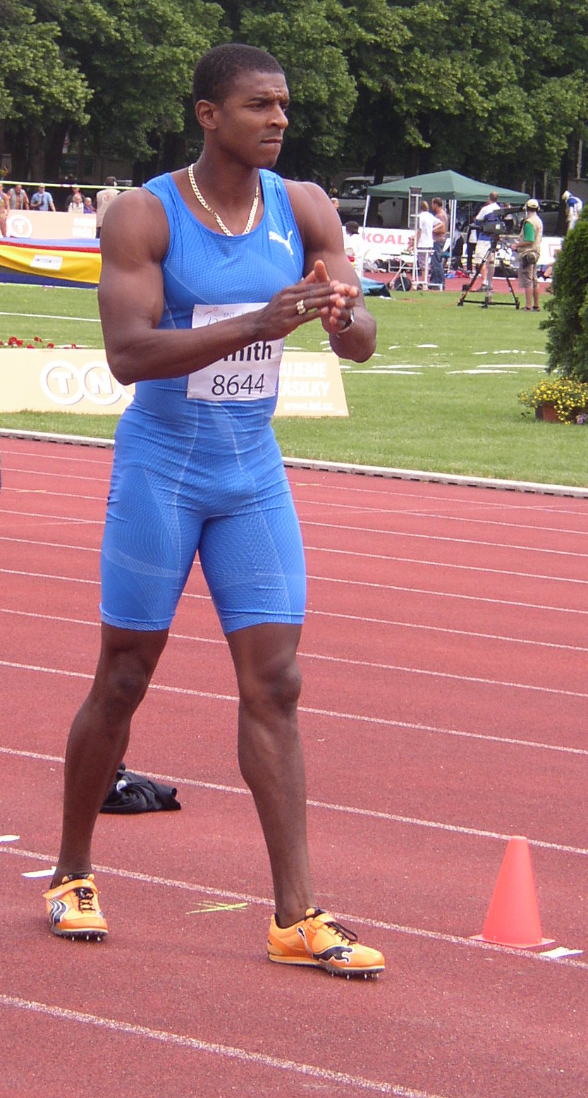 Athlete Maurice Smith of Jamaica prepares for his attempt in long jump during men's decathlon at 4th edition of the TNT - Fortuna Meeting (IAAF World Combined Events Challenge Meeting, Sletiště Stadium, Kladno, Czech Republic, 15 June 2010, 12:47).